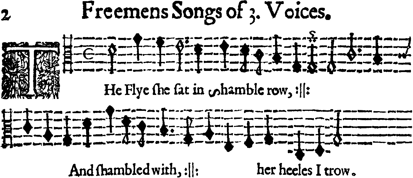 Print from 1609 (London). Composition of Thomas Ravenscroft.